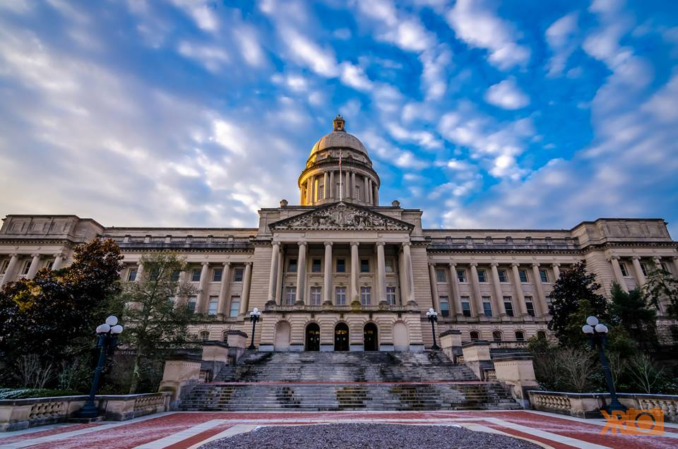 Kentucky State Capitol